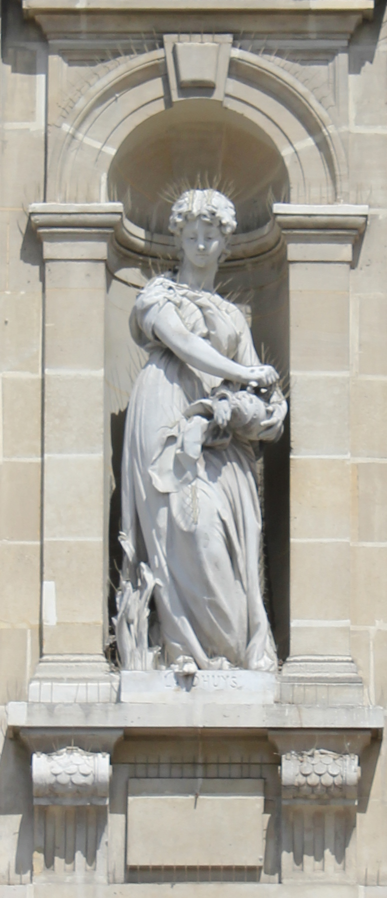 Statue of the city hall of the 19e arrondissement.